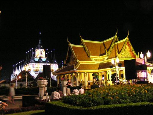 Chesdabodin Pavilion and Plaza; in the background: Wat Ratchanadda; Bangkok, Thailand; during 222 yrs anniversary illumination